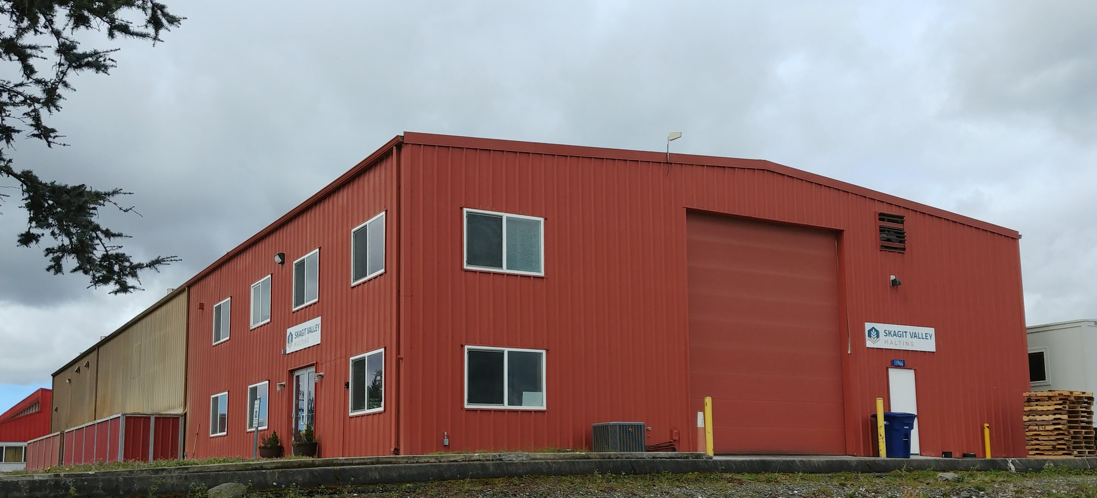 A two story metal building, reddish in color, with a high door in the center. On two visible walls is a sign reading "Skagit Valley Malting Company".